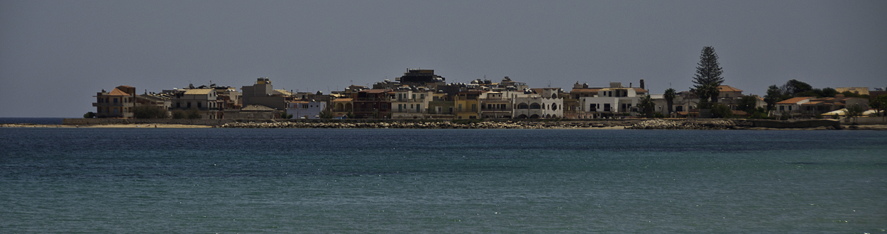 Panorama of the beautiful seaside town of Avola, near Siracusa, Sicily.